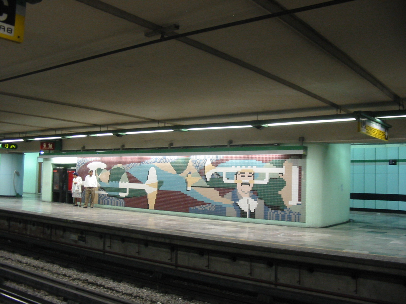 Tilework inside the Metro Garibaldi Station